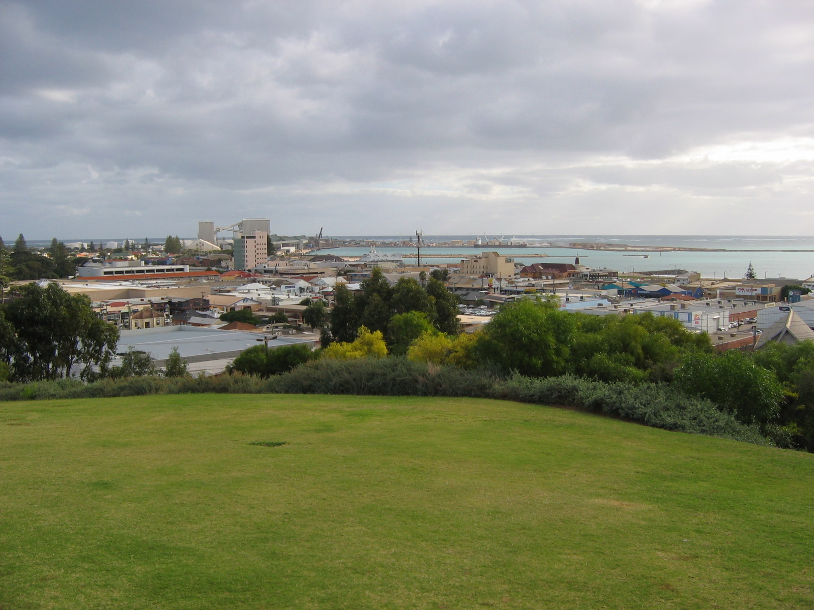 View towards Geraldton from HMAS Sydney memorial, Geraldton, Western Australia.